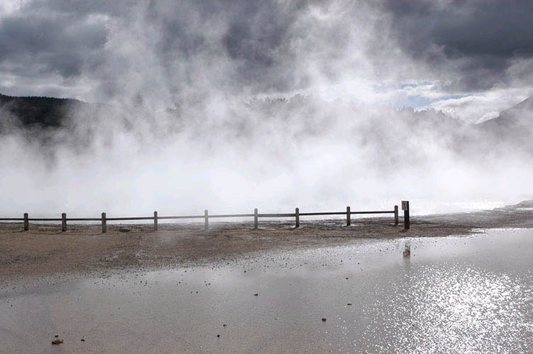 Champagne Pool, Waiotapu